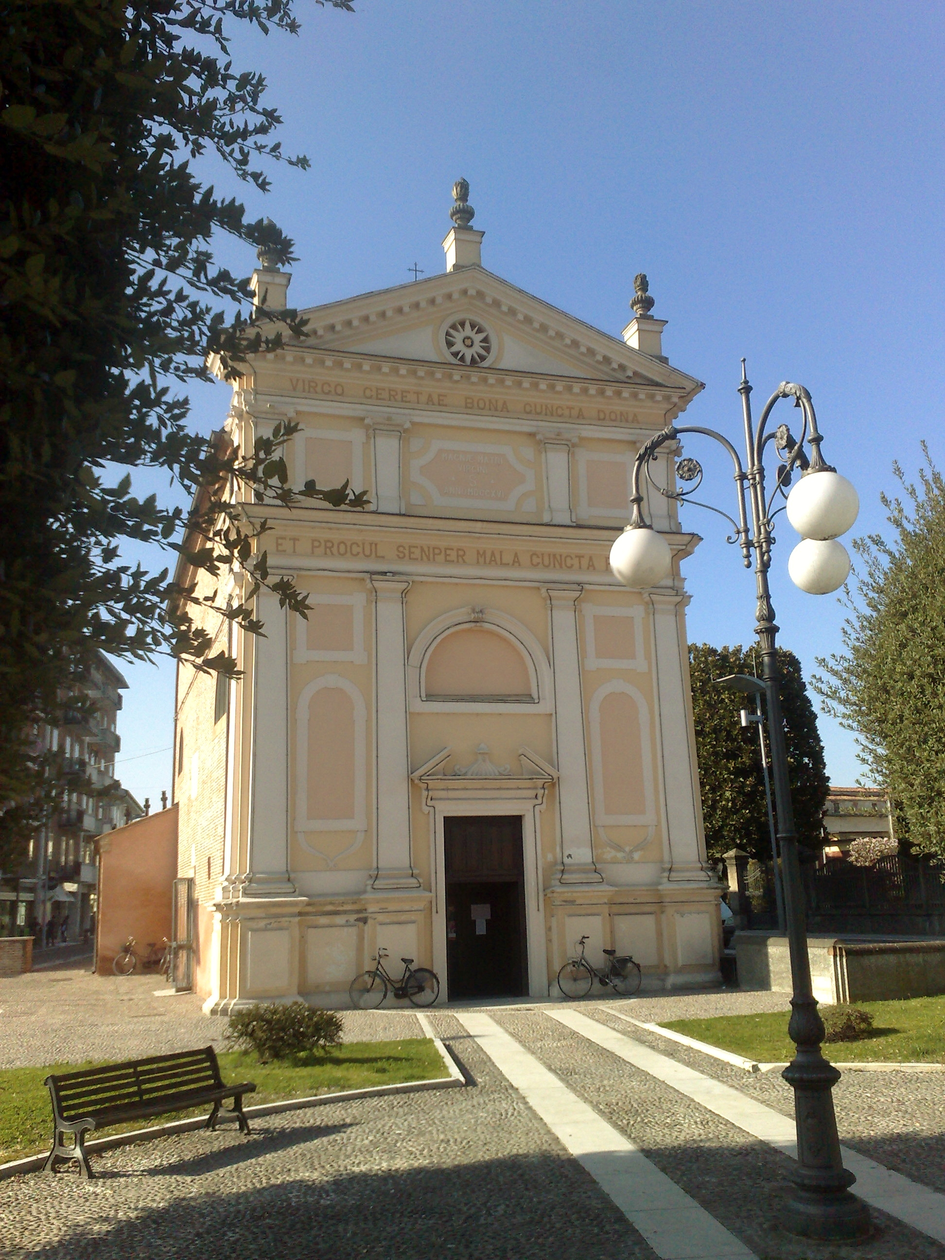 Beata Vergine dello Spasimo's Church in Cerea (Vr)